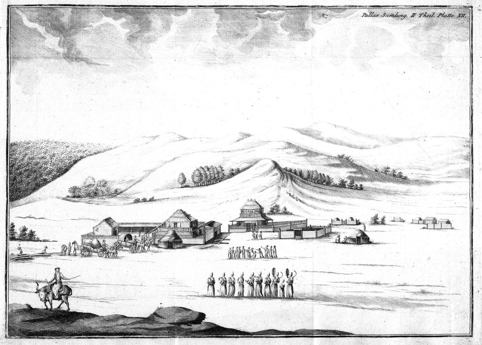 Mongolian Encampment in the eighteenth century